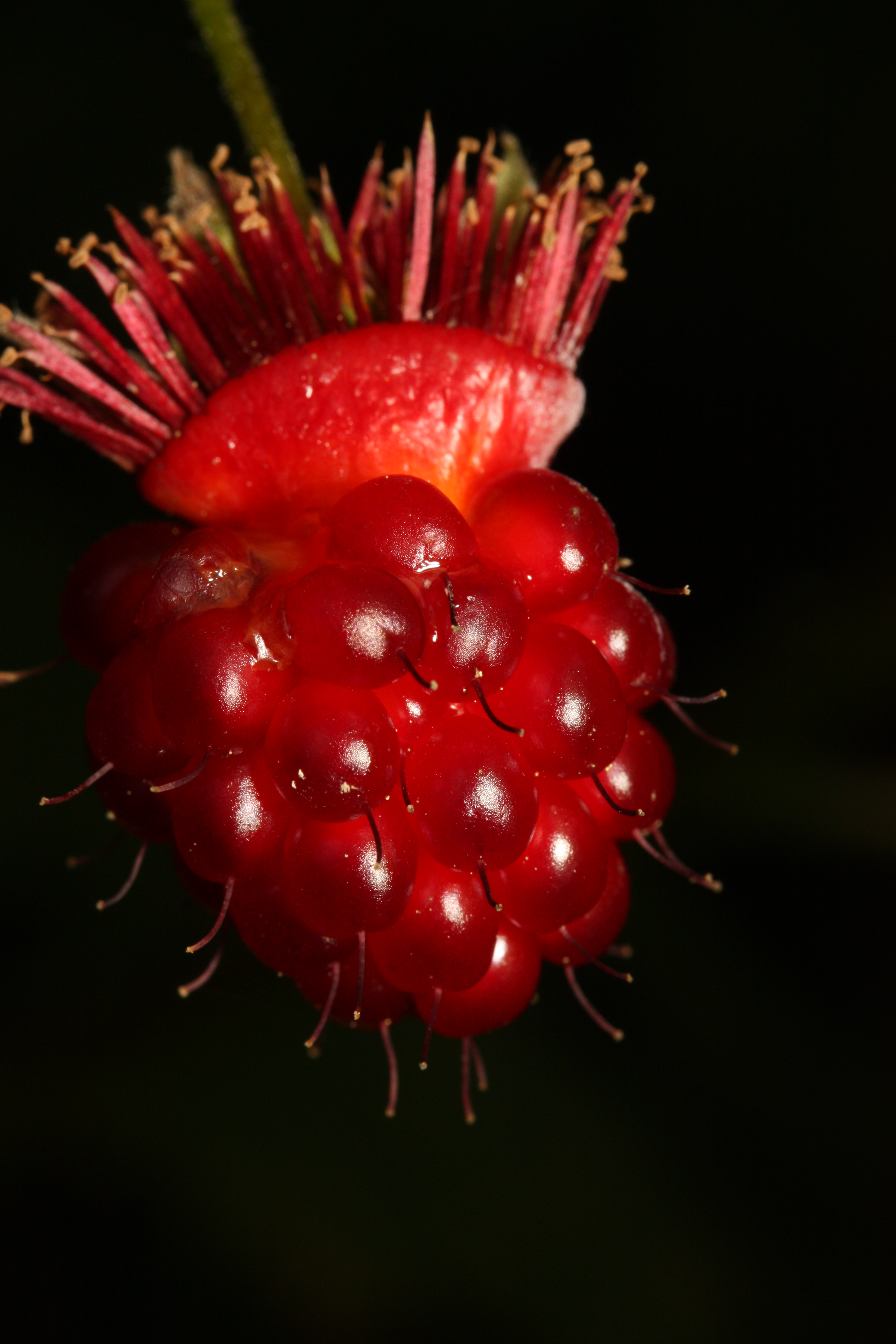 Salmonberry